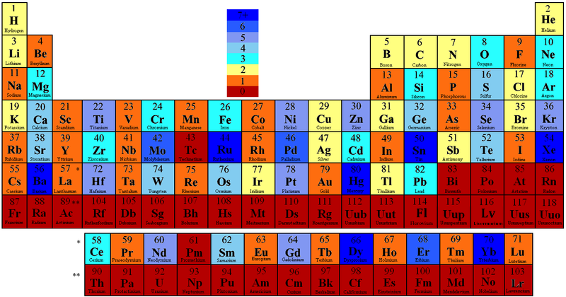 Periodic table colored according to the number of stable isotopes. Elements with odd atomic numbers have only one or two stable isotopes, while elements with even atomic numbers all have three or more stable isotopes, except for the first three: helium, beryllium, and carbon.